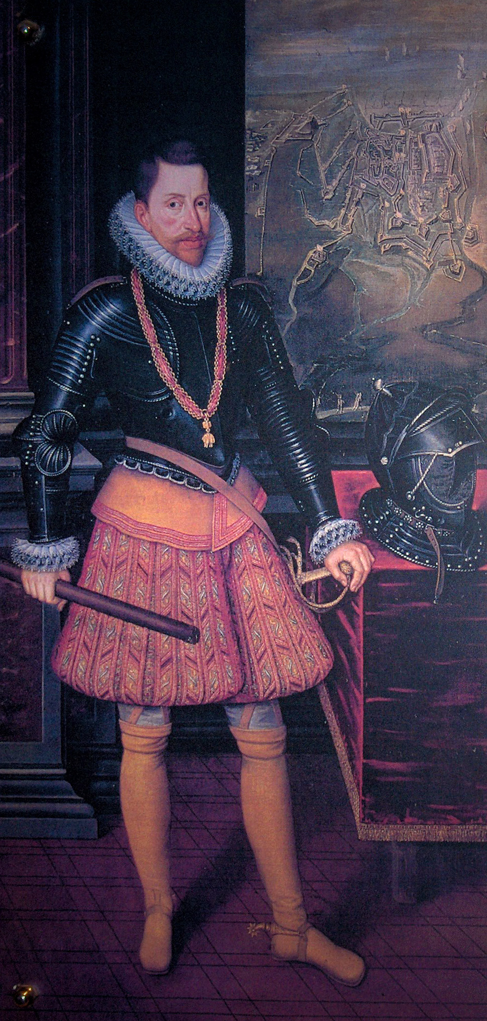 Portrait of Albert VII, Archduke of Austria; in the background : Siege of Ostend (1601-1604) by Spanish troops